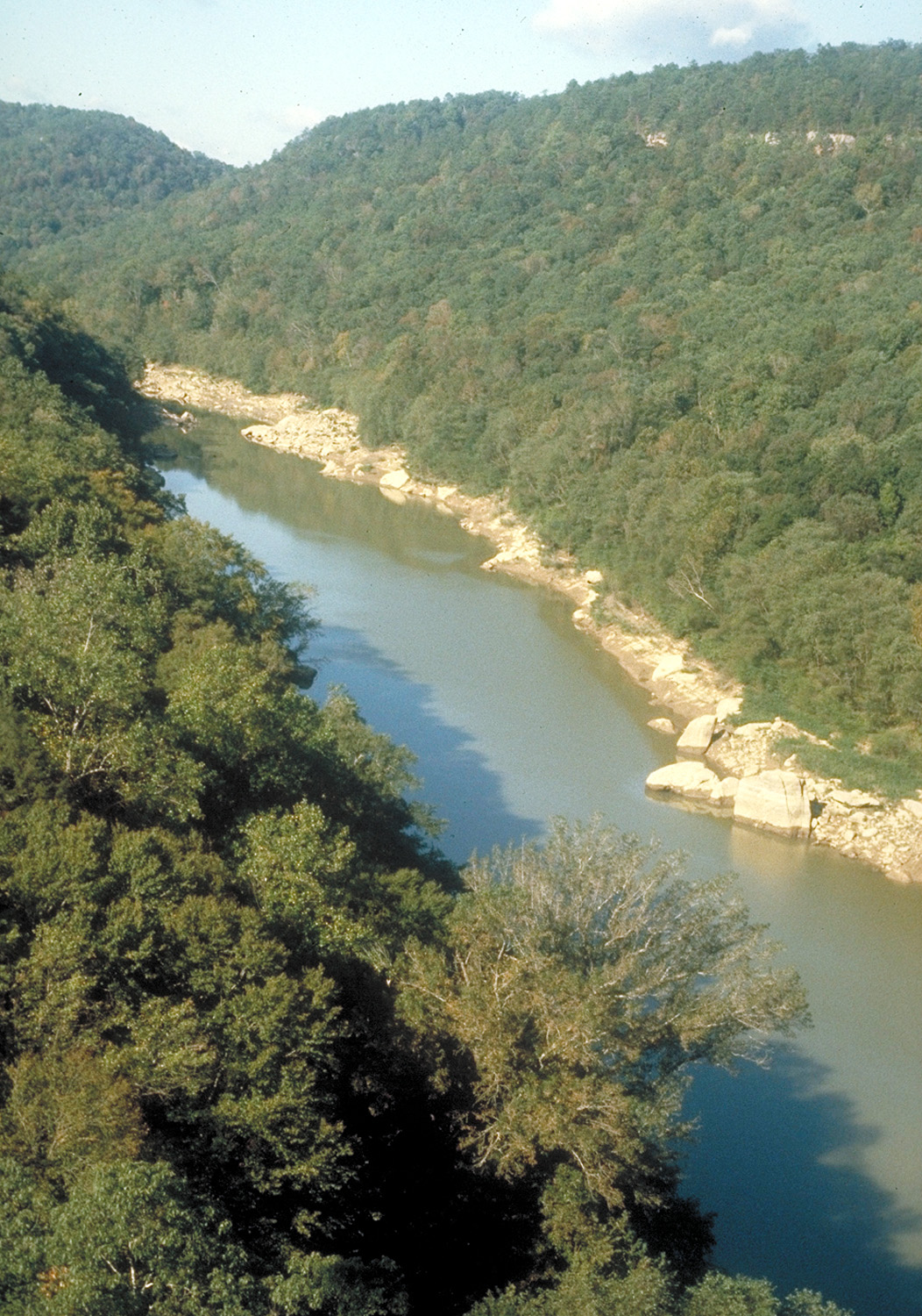 The Big South Fork of the Cumberland River in the Big South Fork National River and Recreation Area in Scott, Fentress, and Pickett Counties of Tennessee and McCreary County, Kentucky, USA.